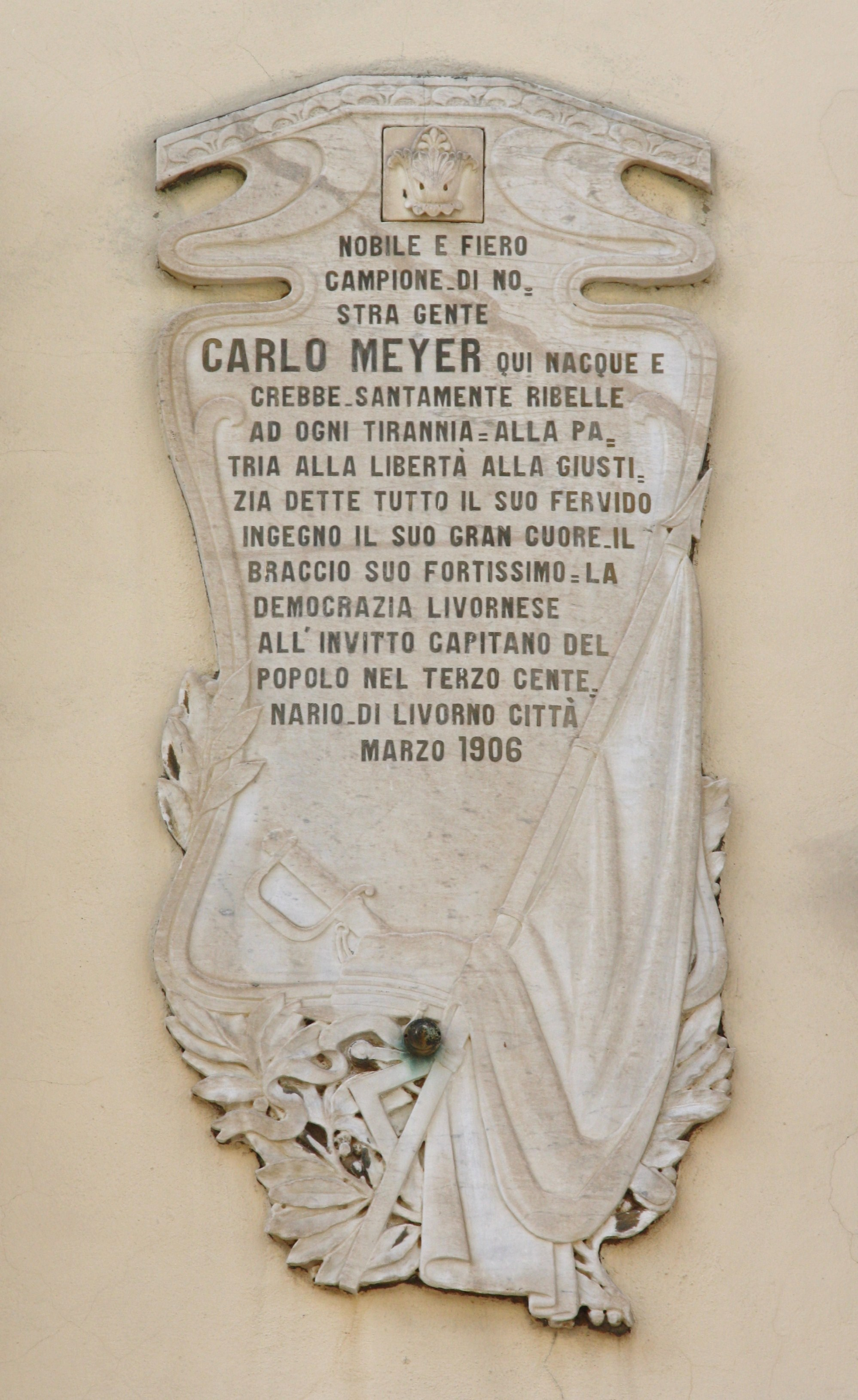 Italy, Livorno, Via Ricasoli. The memorial plaque to remember that Carlo Meyer was born and lived in this place.